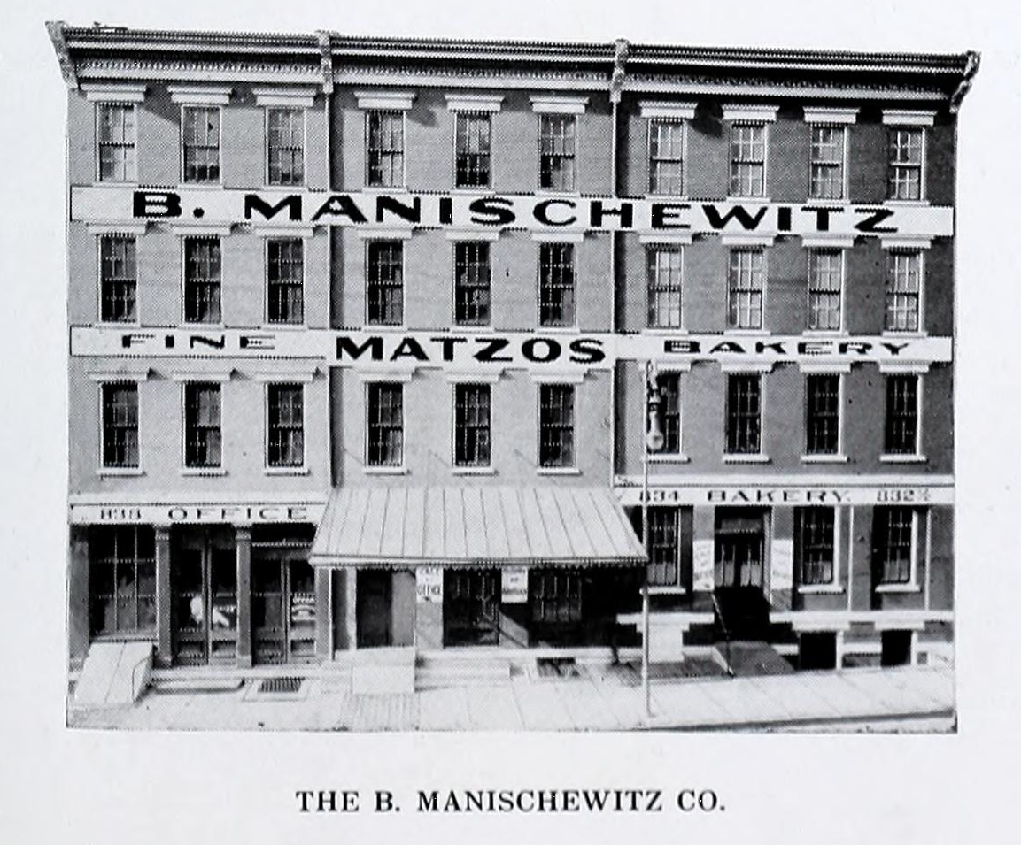 The front facade of the early Manischewitz matzo bakery in Cincinnati, one of several locations it had in that city in its earlier years.